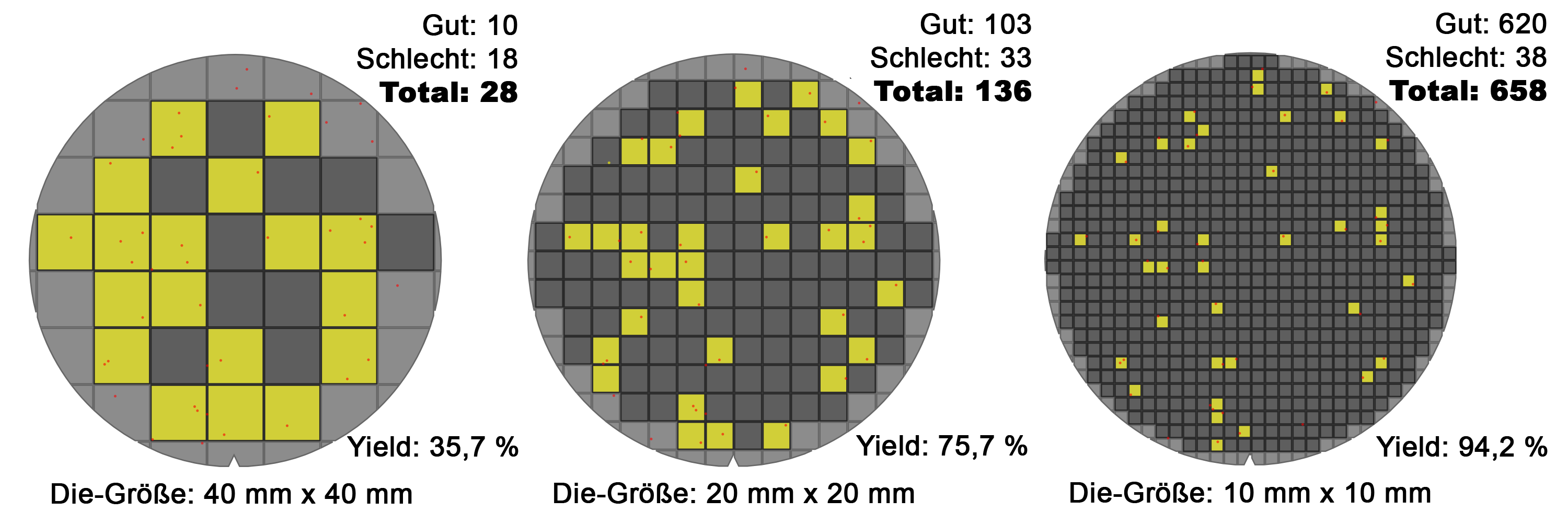 3 models for die's yield on a 300mm wafer. Those are different only die size. 1(Top):10mmx10mm 2(Middle):20mmx20mm 3(Bottom):40mmx40mm Each yields are 94.2%/75.7%/35.7% by using same damaged spots(red dot). Smaller die size can minimize the bad dies impact which shown by yellow. If process scale could shrink from 40mm to 10mm, the linear size ratio and area ratio would be 4:1 and 16:1, but Good die count will be 10:620 on those models.